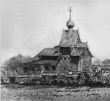 The Church of Laying Our Lady’s Holy Robe from the village of Borodava near Ferapontov Monastery. Figure painter mid 19 th century NA Martynov. Russian Museum.